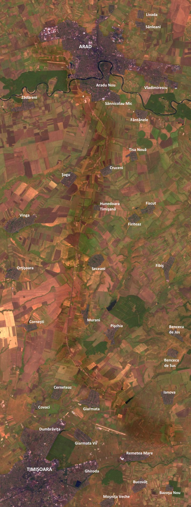 Timisoara-Arad section of the Romanian A1 motorway under construction as of September 21, 2011 (Landsat TM satellite image).